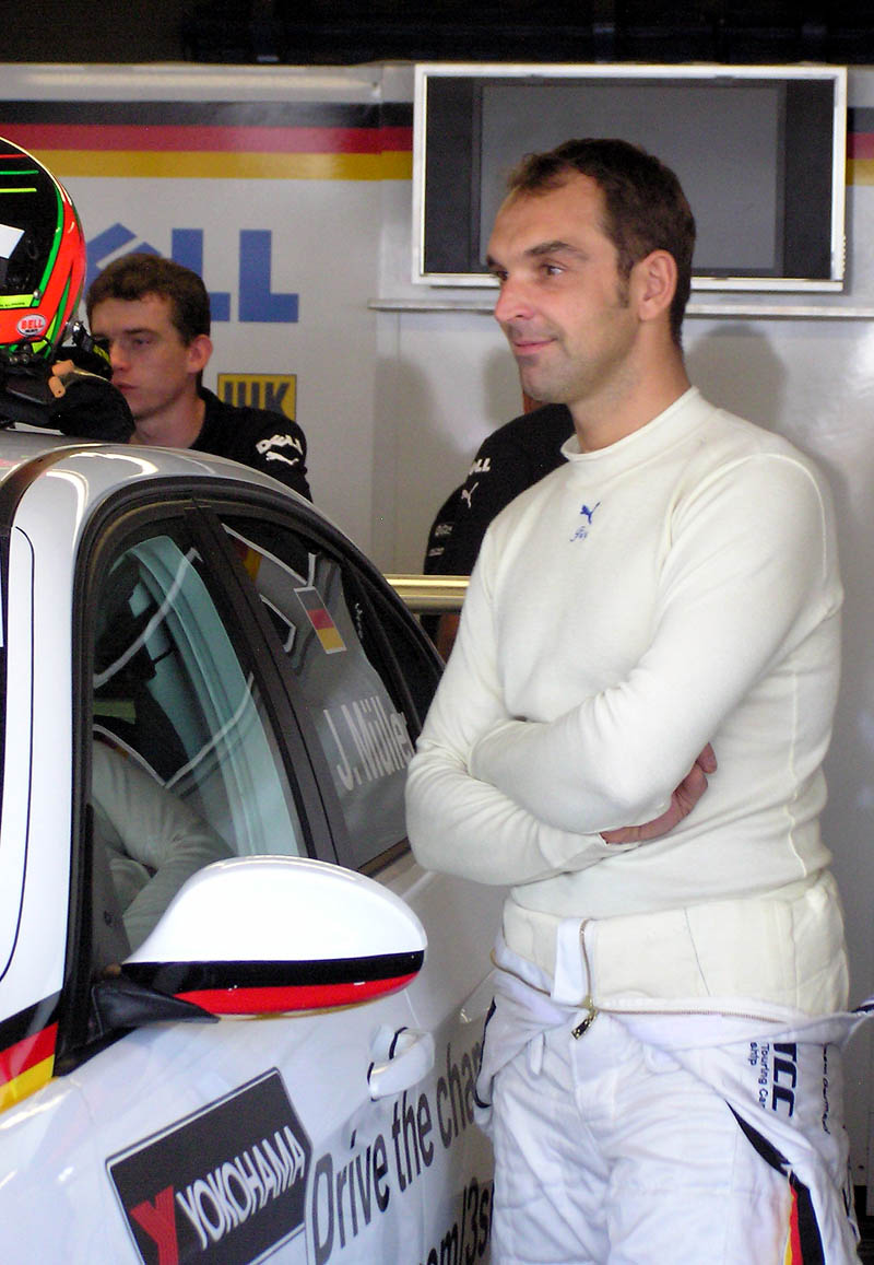 Jörg Müller (BMW Team Germany {Schnitzer Motorsport}) at the qualify session in Curitiba.